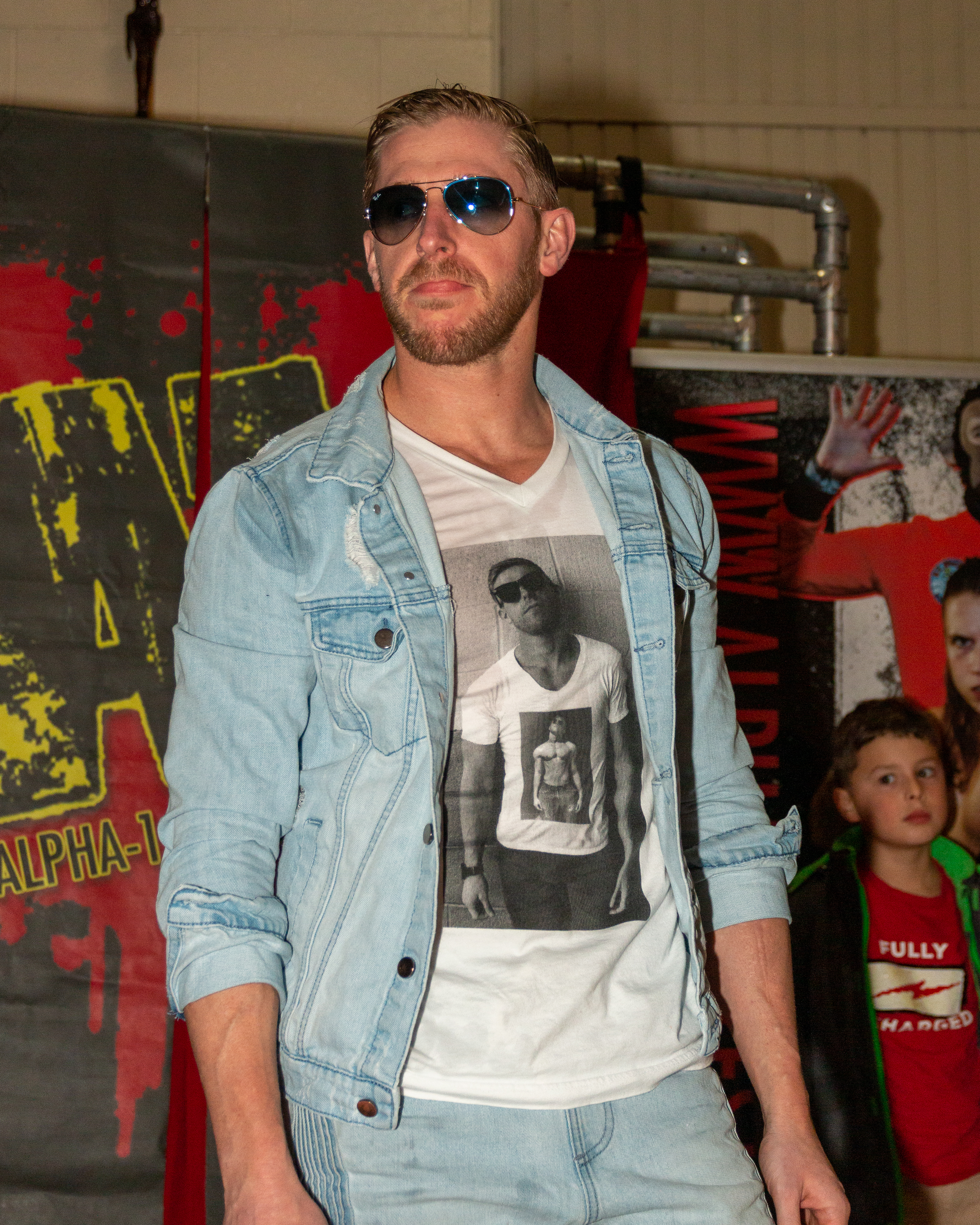 Professional wrestler Orange Cassidy making his ring entrance at Alpha-1's Final Act X at Hamilton, ON